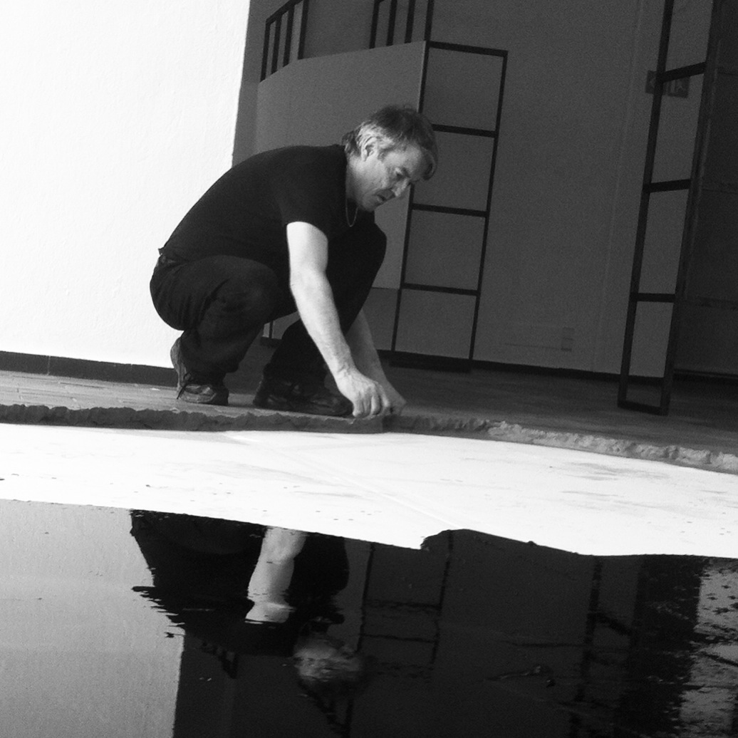 Luigi Stoisa making his installation for "Haver fet un lloc on els artistes tinguin dret a equivocar-se", an exhibition for the 35th anniversary of Barcelona's Espai 13, at Fundació Joan Miró